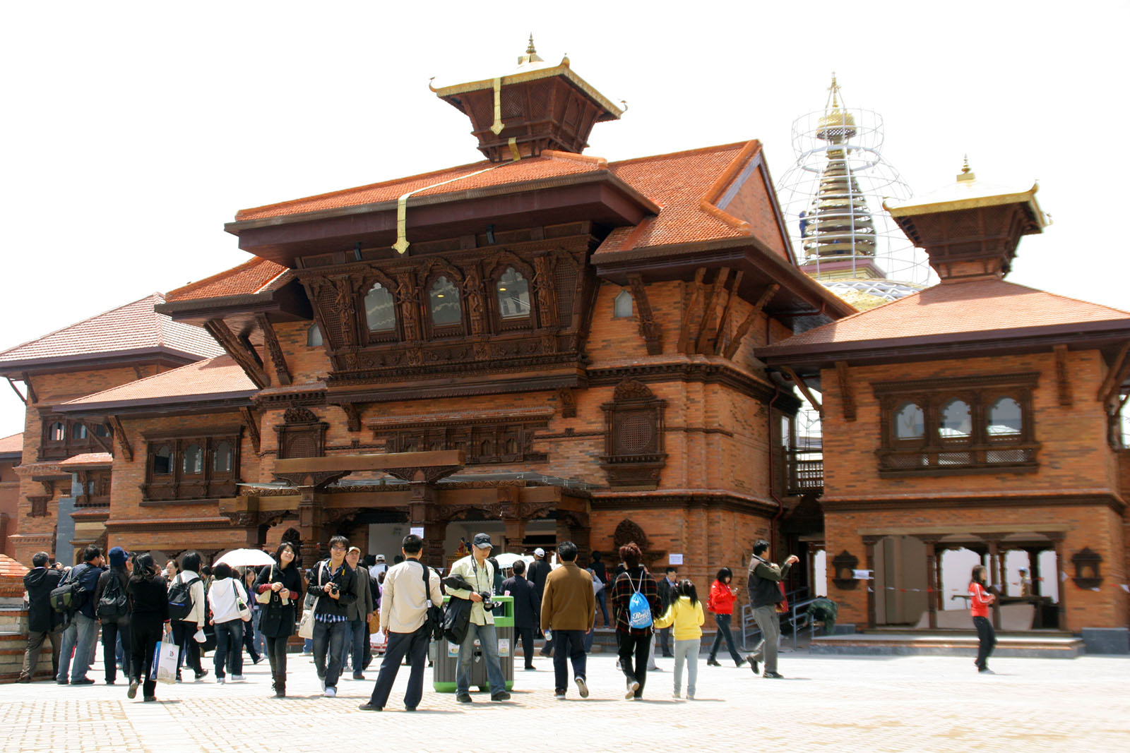 Nepal Pavilion of Expo 2010